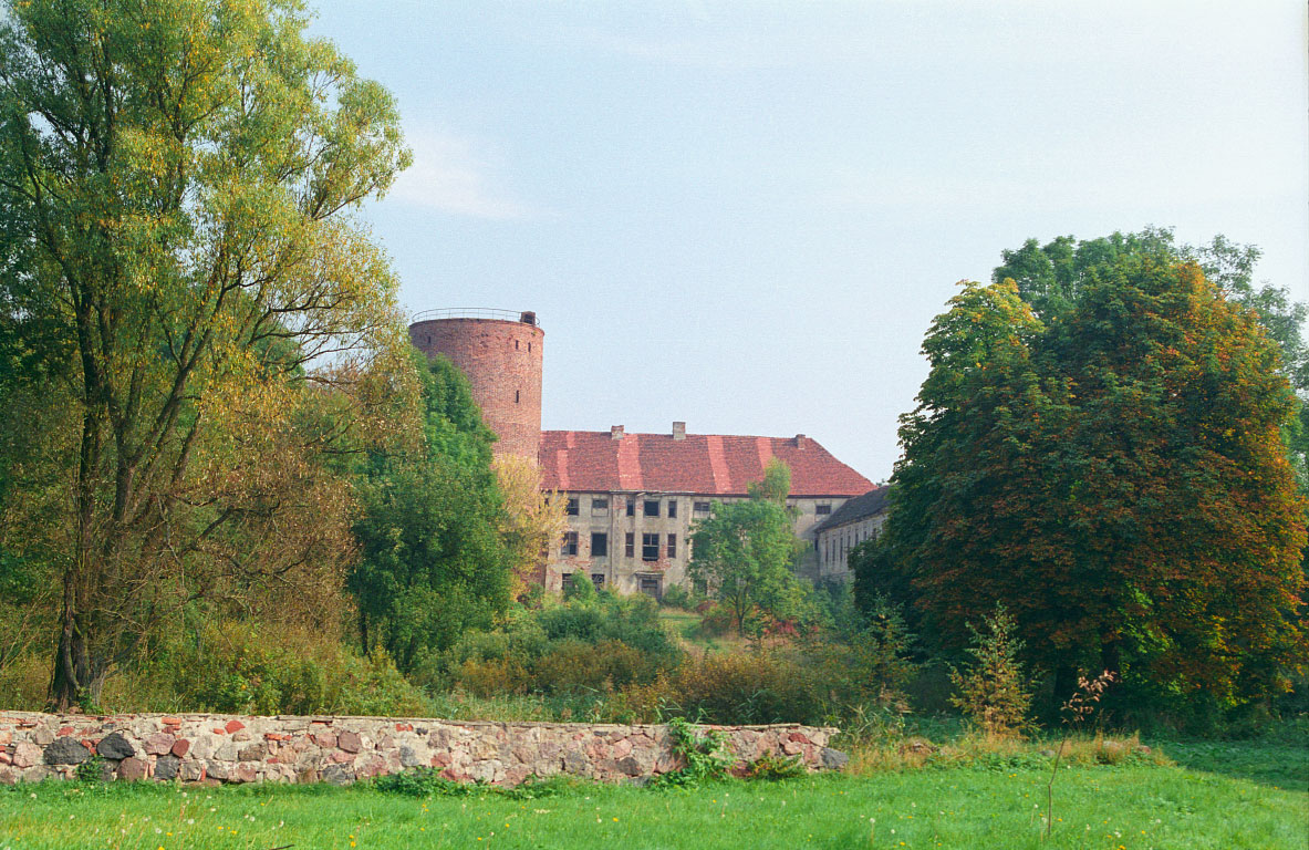 Poland, Swobnica Castle